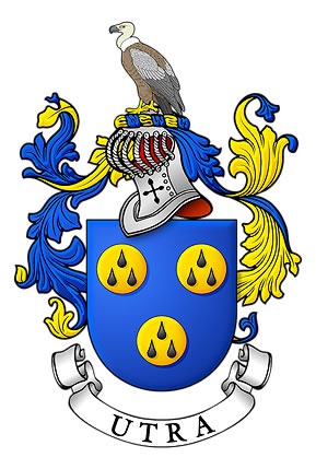 Coat of Arms of the House of Utra (ancestral descendants of the Van Huerters).